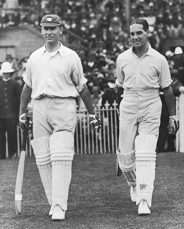 Batting partners Jack Hobbs (1882 - 1963, left) and Herbert Sutcliffe (1894 - 1978) go out to open the innings for England in the second Test at Melbourne, February 1925. The pair put on 283, their third century partnership in successive innings.